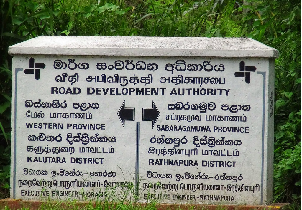 Ingiriya Location02